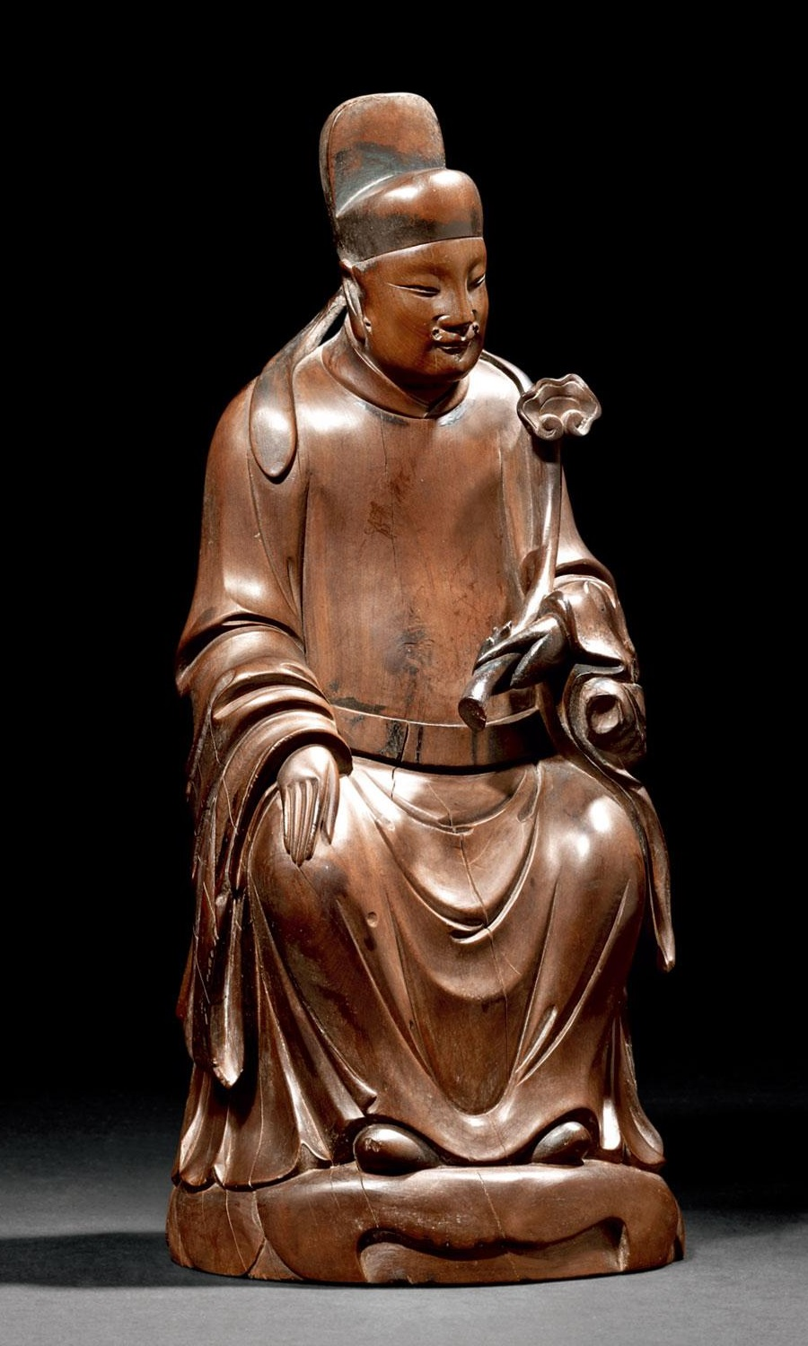 the wooden statue of Wenchang Wang from late Ming dynasty (Chinese Box wood)